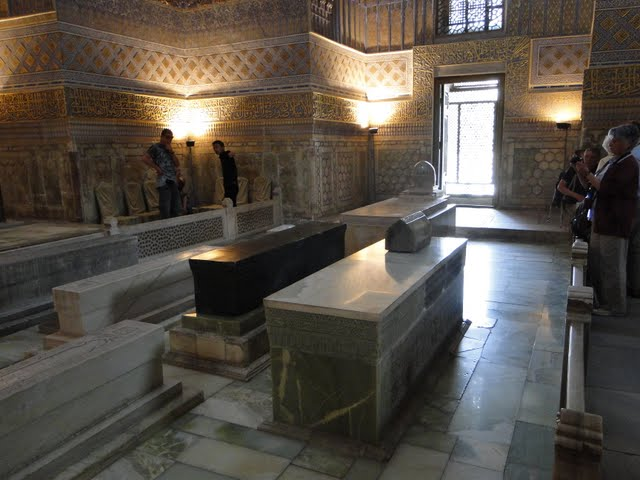 The tomb of Tamerlane (black stone)